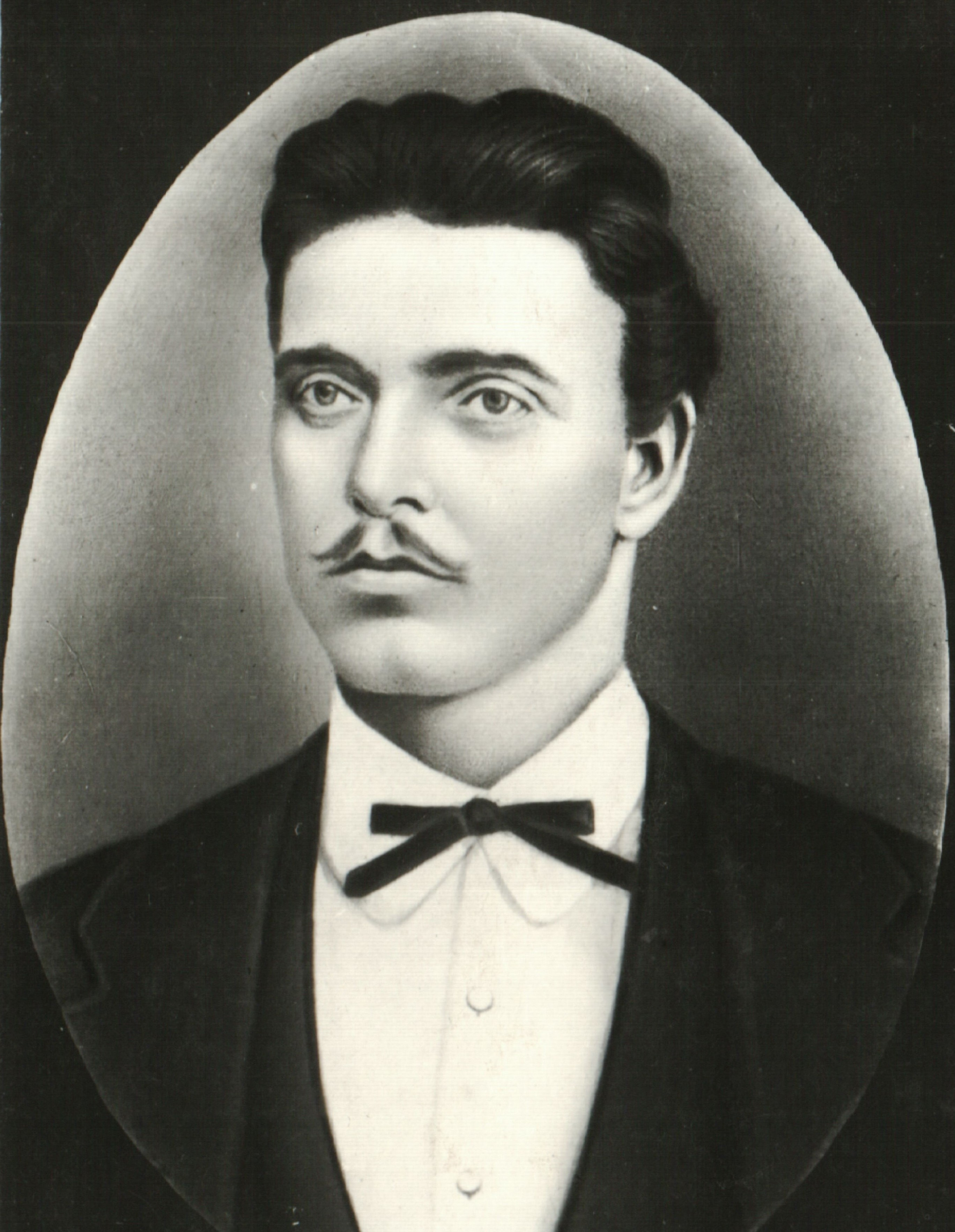 Bulgarian revolutionary and is a national hero of Bulgaria Vasil Levski